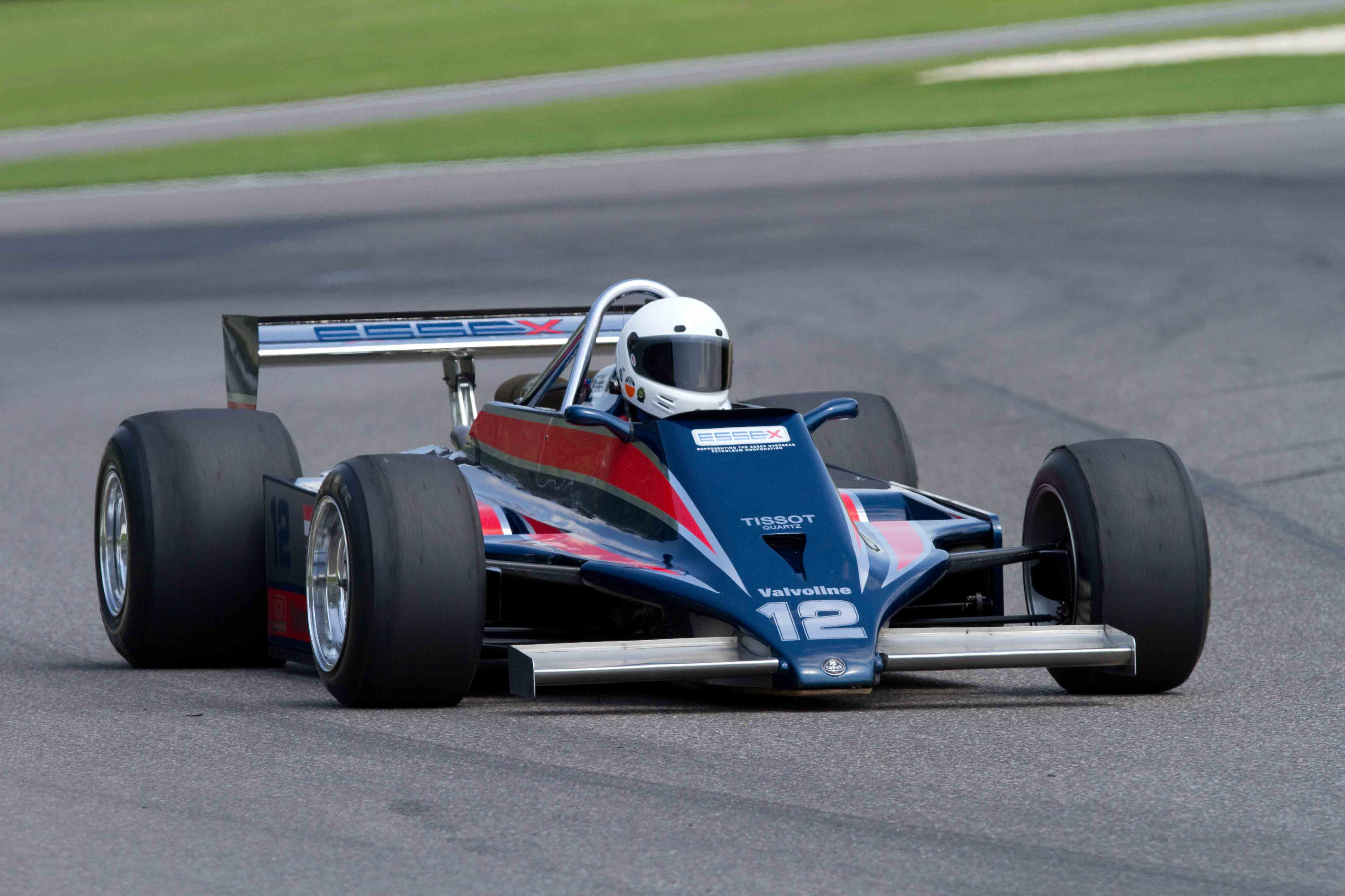 Lotus 81 at Barber Motorsports Park, 2010